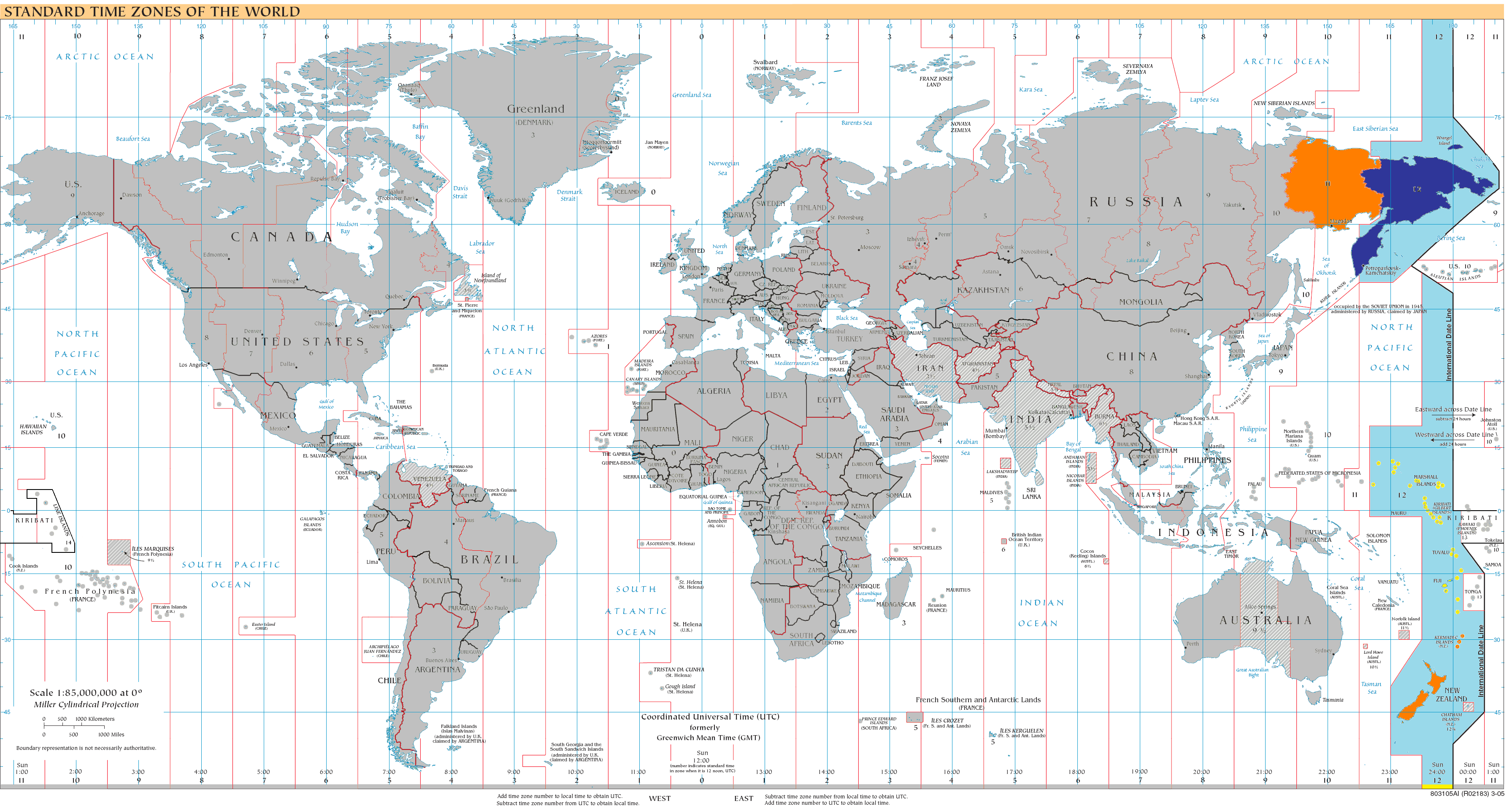 World map of time zones as of 2008, on the Miller Cylindrical Projection and with highlighted UTC+12 zone.